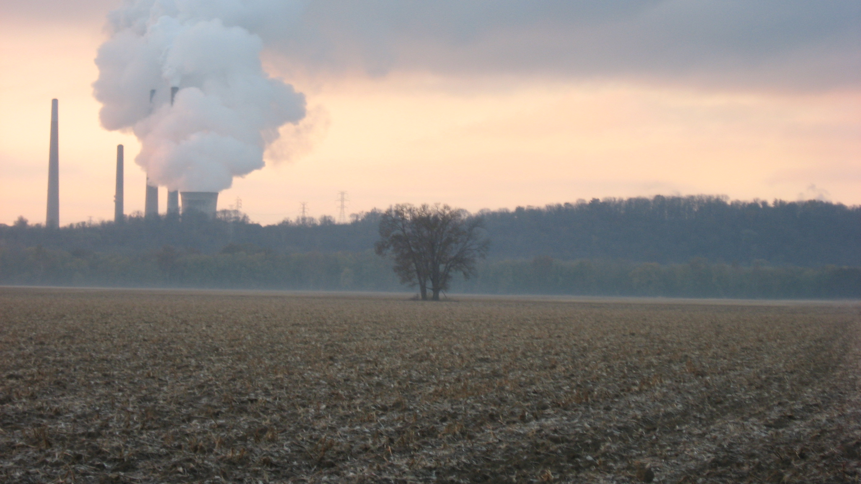 Fields on the line between Lawrenceburg Township, Dearborn County, Indiana and Whitewater Township, Hamilton County, Ohio, United States. Although non-descript today, this field was once the location of a village of the Fort Ancient culture. Because of its archaeological value, the village site and several associated burial mounds are listed on the National Register of Historic Places as the State Line Archeological District.